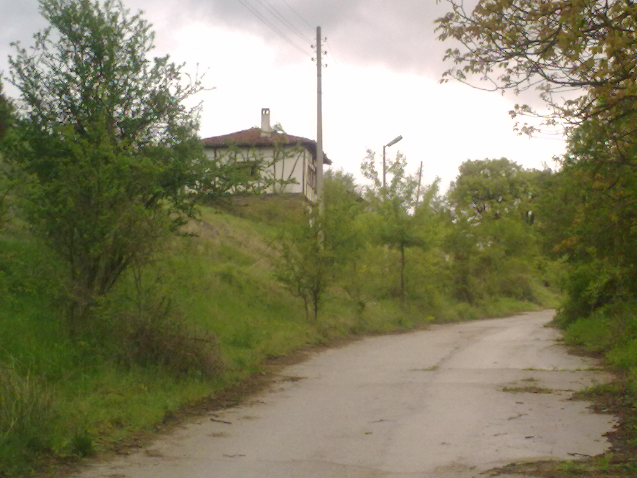 Srebrinovo